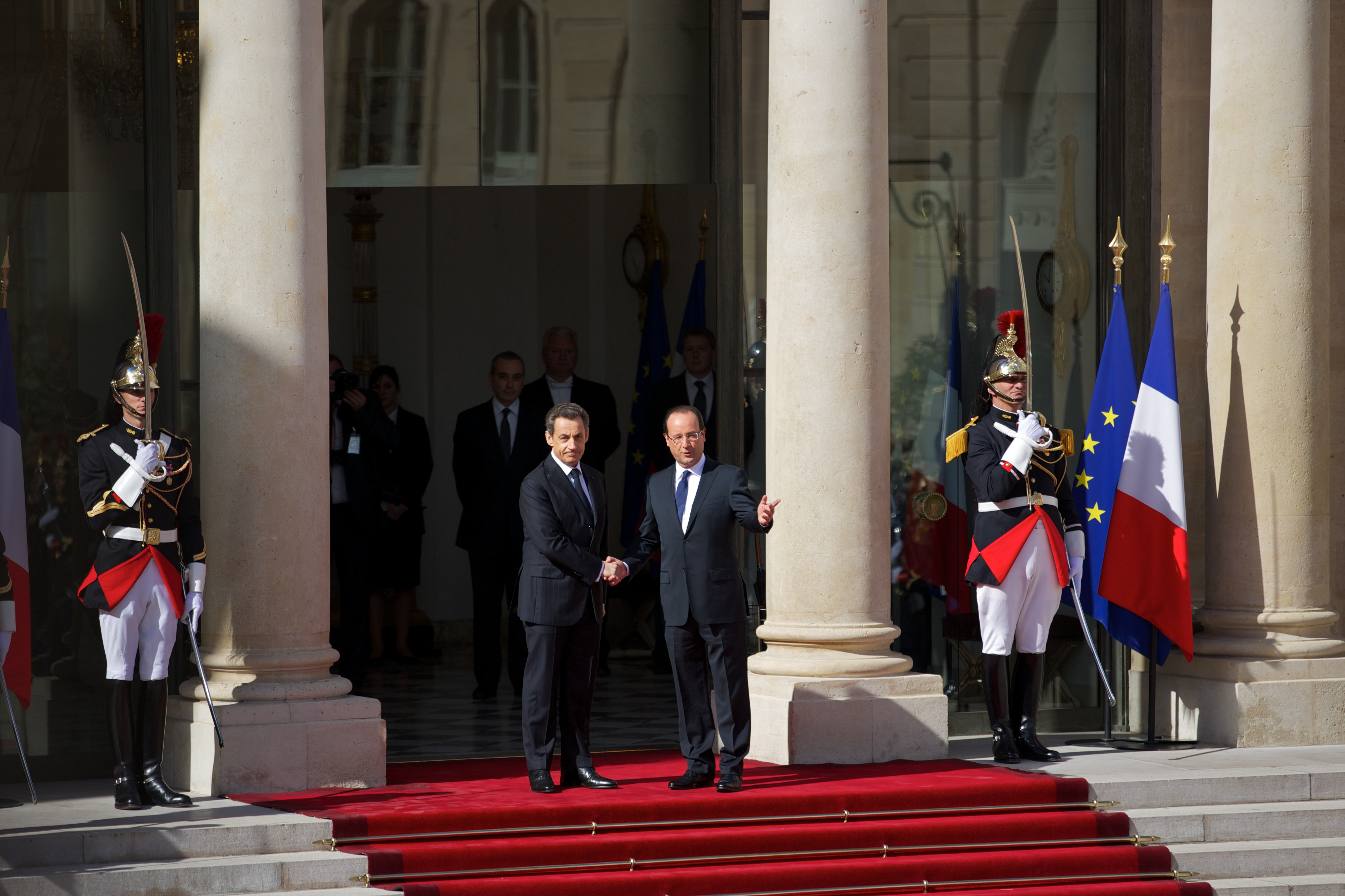 Nicolas Sarkozy and François Hollande on the steps of the Élysée Palace, 2012 inauguration ceremony of the President of France.